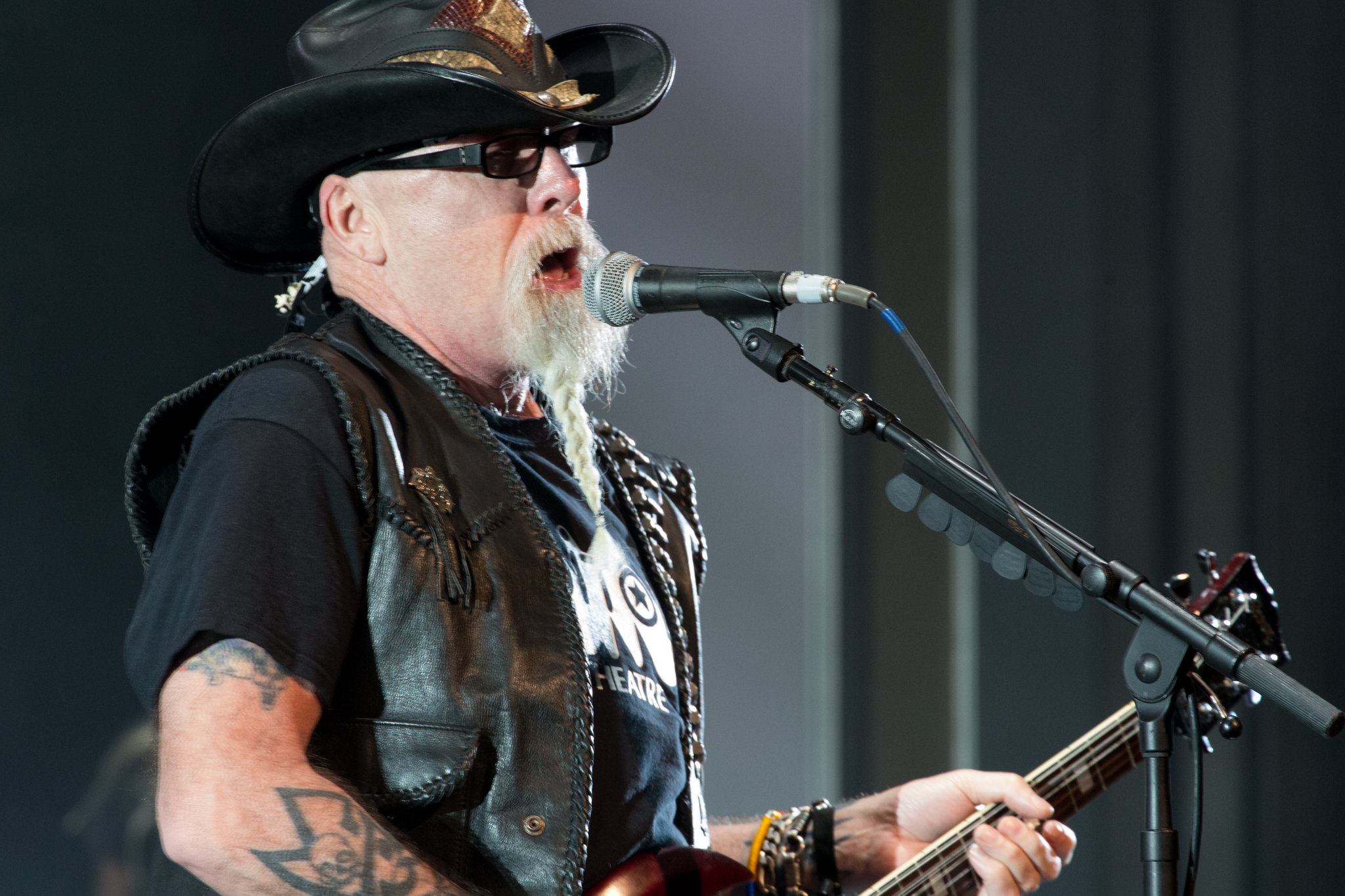 Whiplash performing at 70.000 tons of metal, january 2015